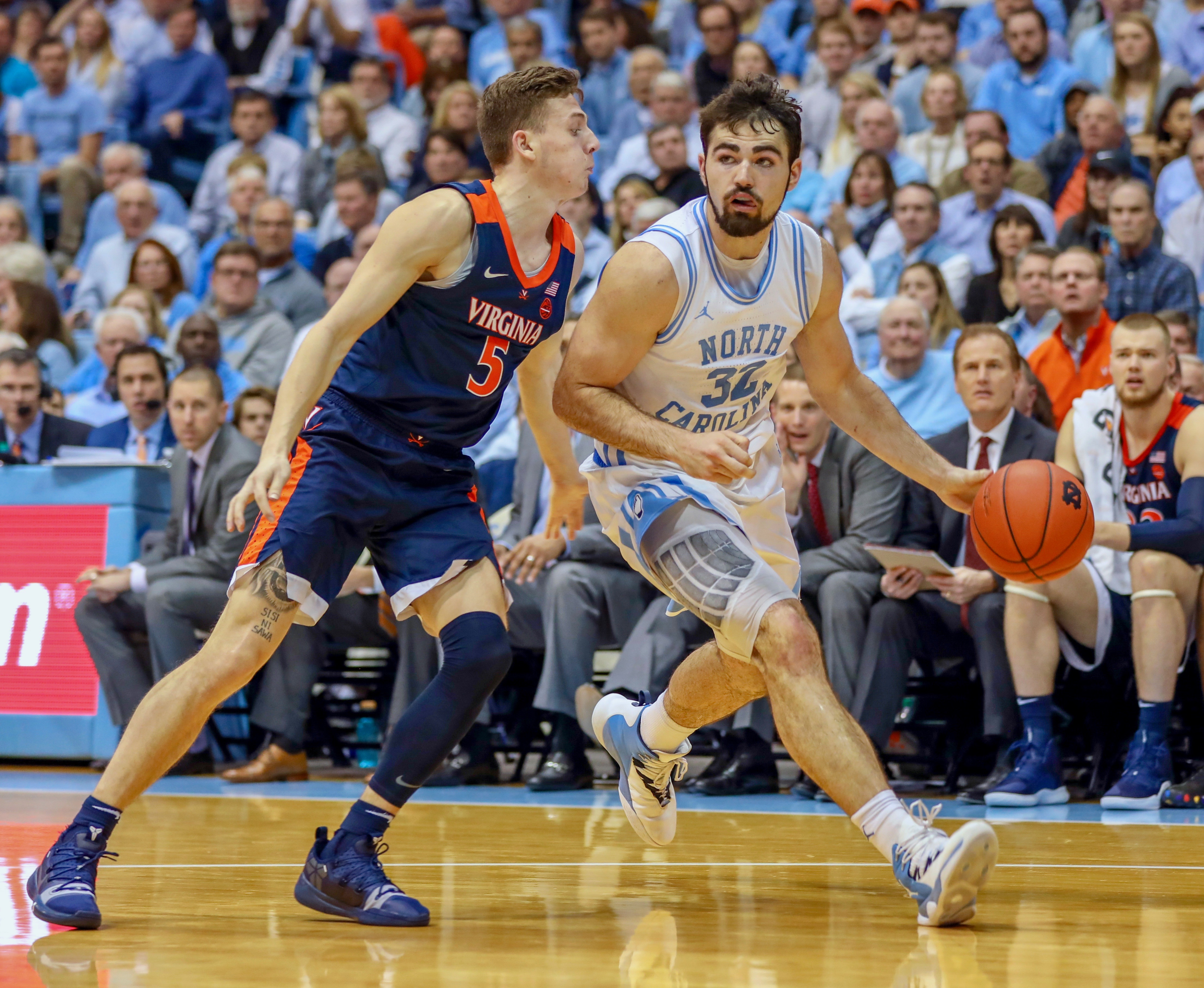 Luke Maye dribbles the ball.